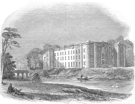 Antrim Castle. From a vintage postal card. This was found at and is not believed to be subject to any copyright. The castle was ruined by fire in 1922.